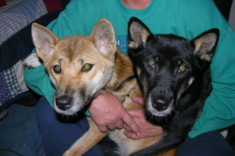 Tazi (black & tan) & Dinki (red) NGSD's